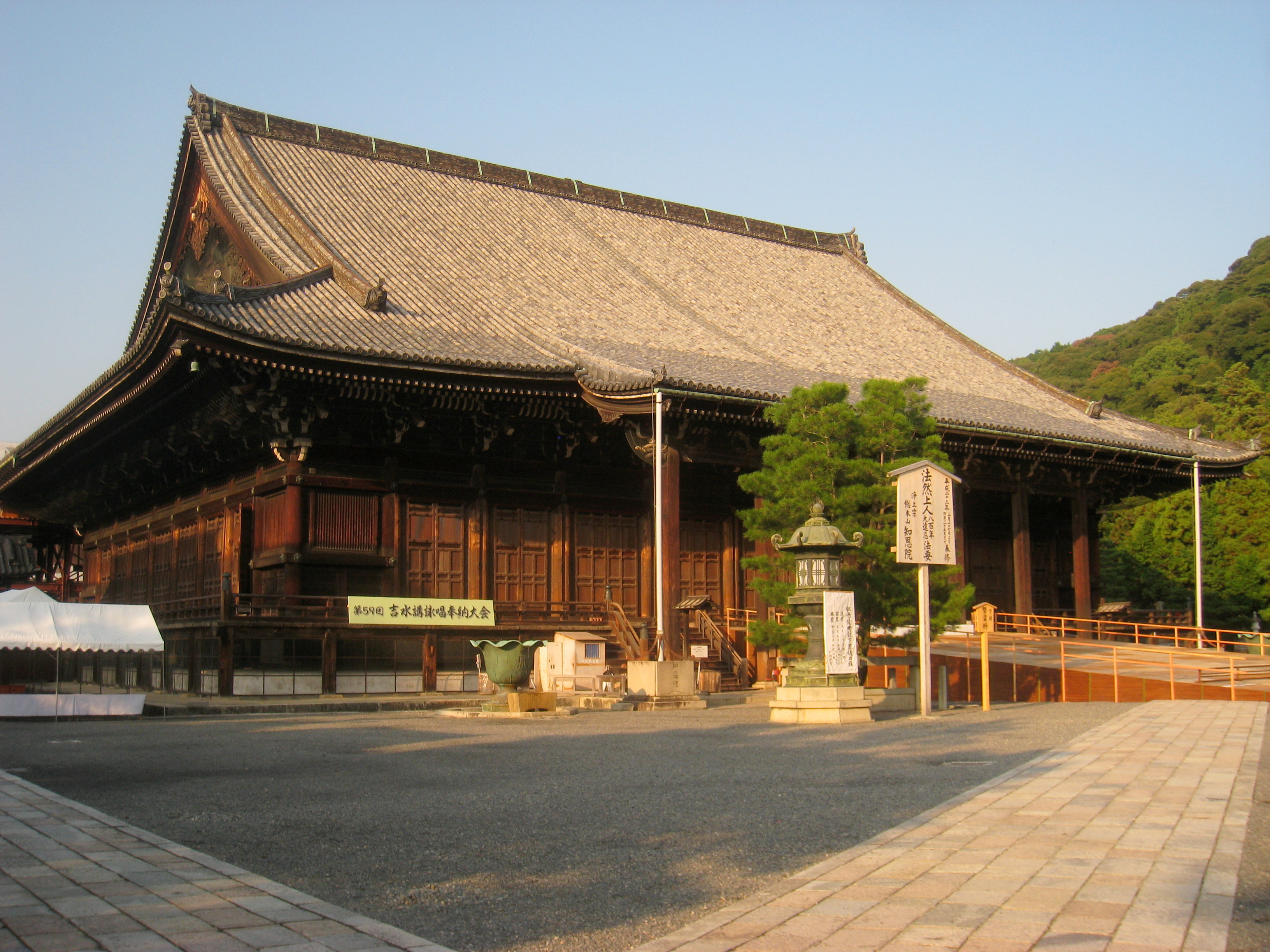 Main Hall, Chion-in, Kyoto, Japan.